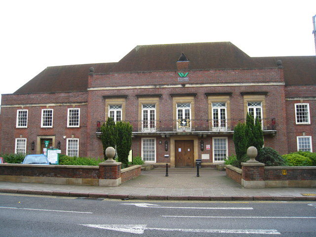 Wycombe Town Hall